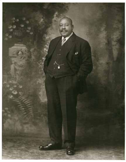 Portrait of Joe Fortes VPL Accession Number: 39420 Date: 1910 Photographer / Studio: White, J. Studio Content: On textured photo paper Topic: Portrait Location: British Columbia - Vancouver Copyright Restrictions: Public Domain Vancouver Public Library